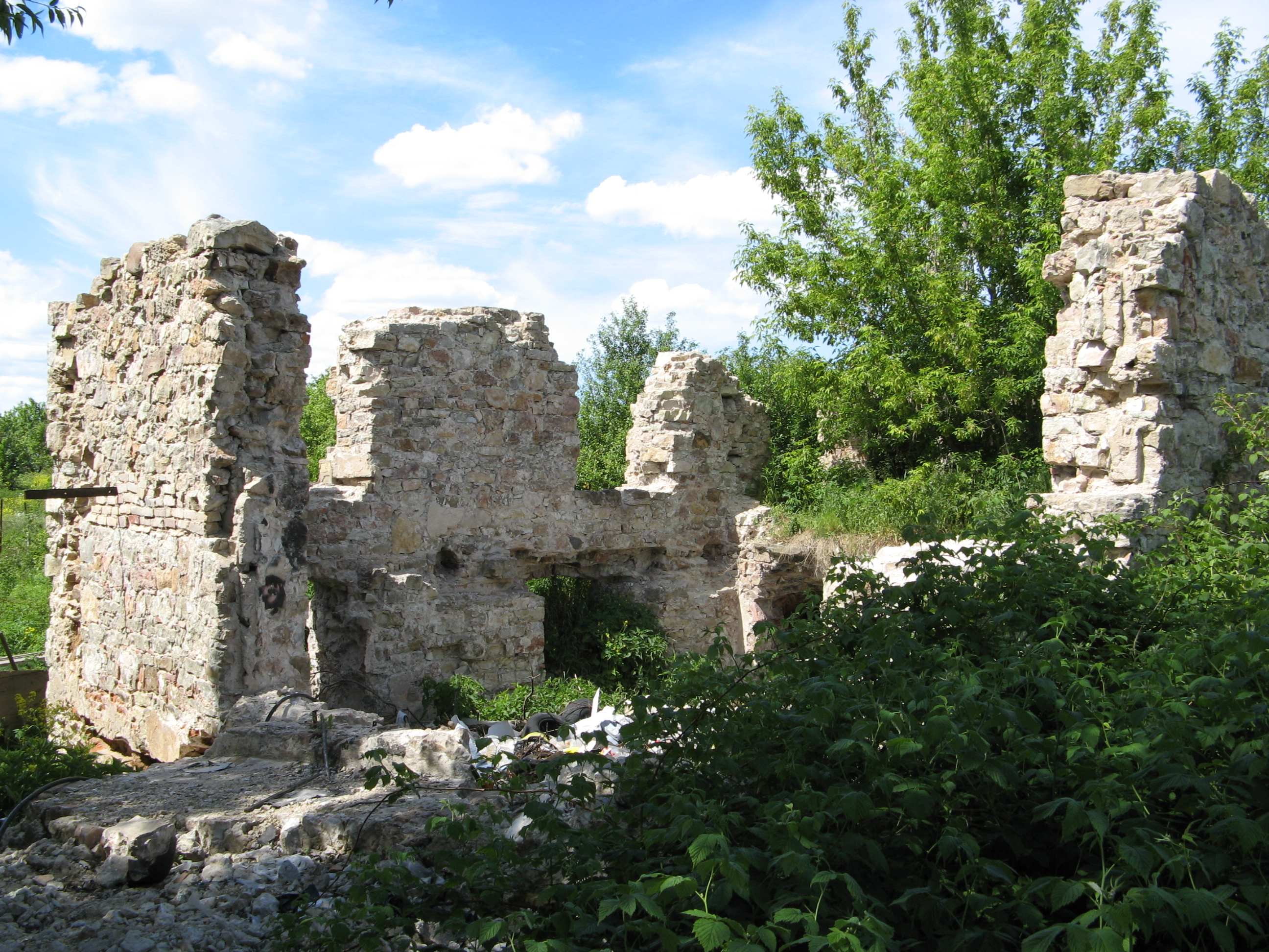 Ruins of Jumpravmuiza estate outside Riga